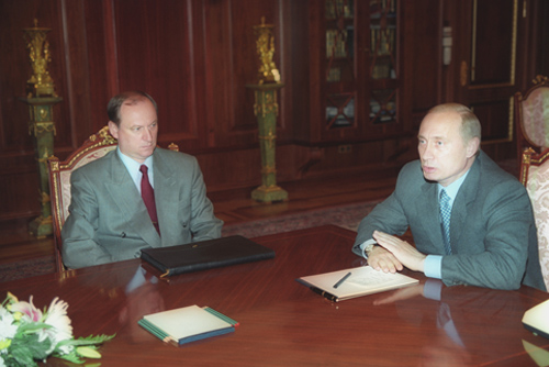 THE KREMLIN, MOSCOW. President Vladimir Putin with Federal Security Service Director Nikolai Patrushev.